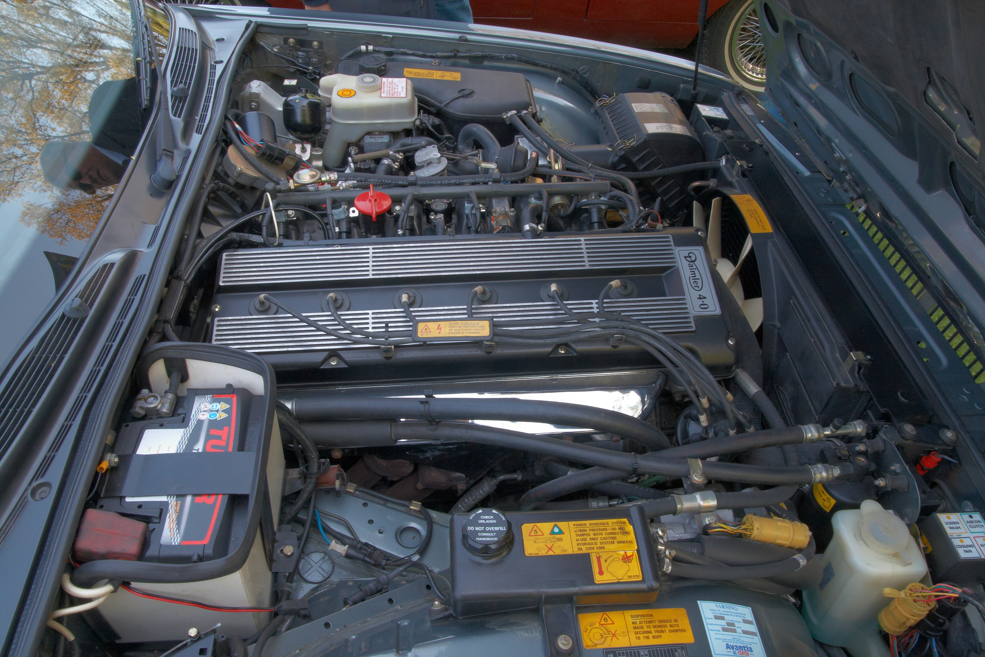 The engine bay of a 1990 Daimler 4.0, showing the 4.0 liter AJ6 engine. Picture taken at the 2009 Sofiero Classic car show in Helsingborg, Sweden.